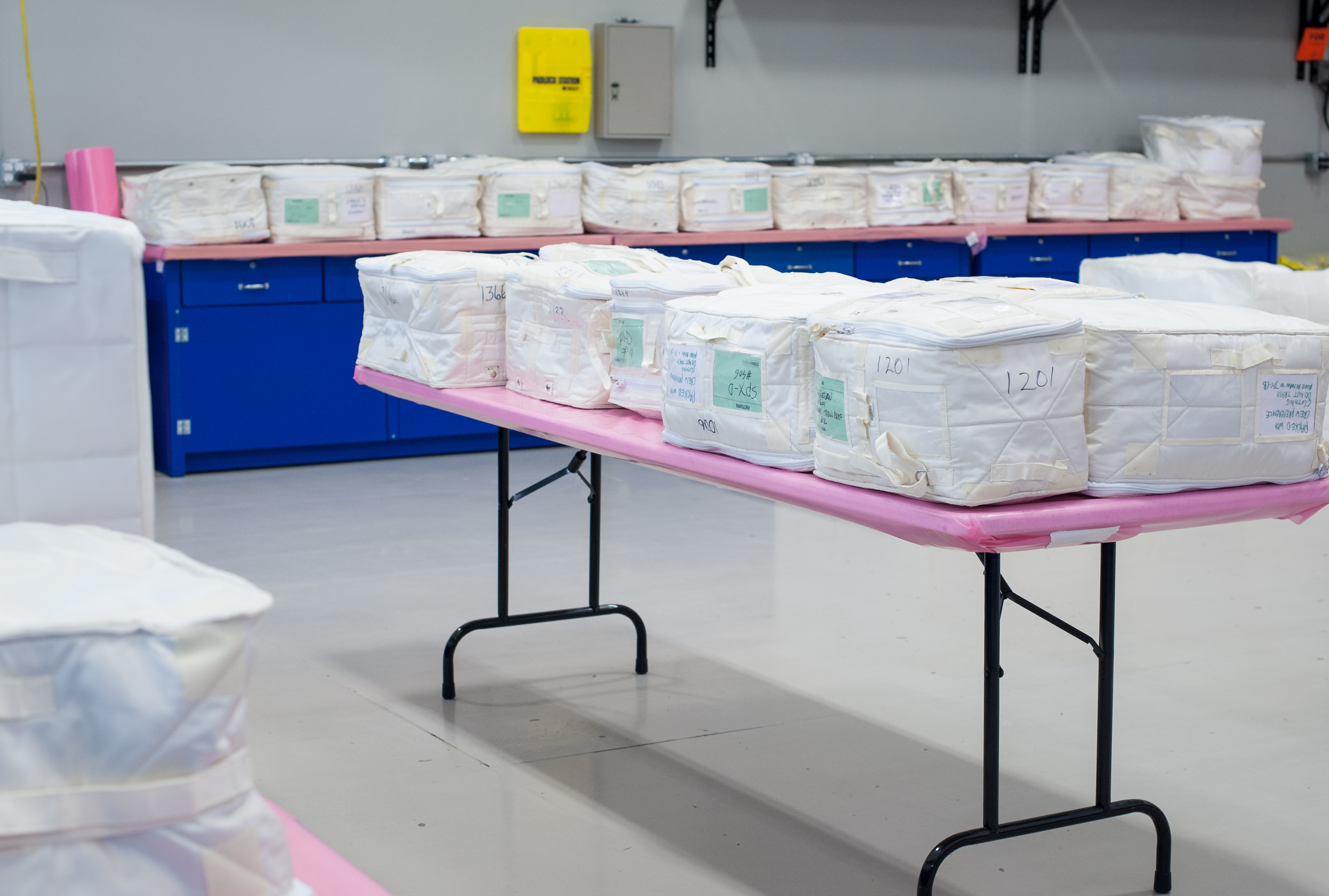 Some of the 1,367 pounds of cargo the SpaceX Dragon spacecraft returned to Earth from the space station are seen in a clean room at the SpaceX rocket development facility, Wednesday, June 13, 2012 in McGregor, Texas. NASA Administrator Charles Bolden and SpaceX CEO and Chief Designer Elon Musk were at the facility to view the historic Dragon capsule and to thank the more than 150 SpaceX employees working at the McGregor facility for their role in the historic mission.